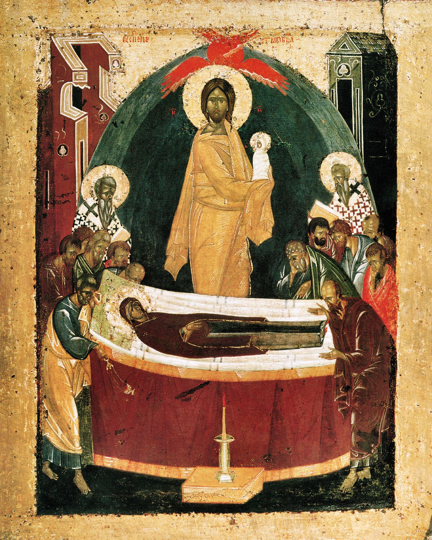 Dormition of the Theotokos (Uspenie Bogoroditsy)--i.e., the repose of the Virgin Mary 1392, by Theophan the Greek; the other side of an icon of Our Lady of the Don